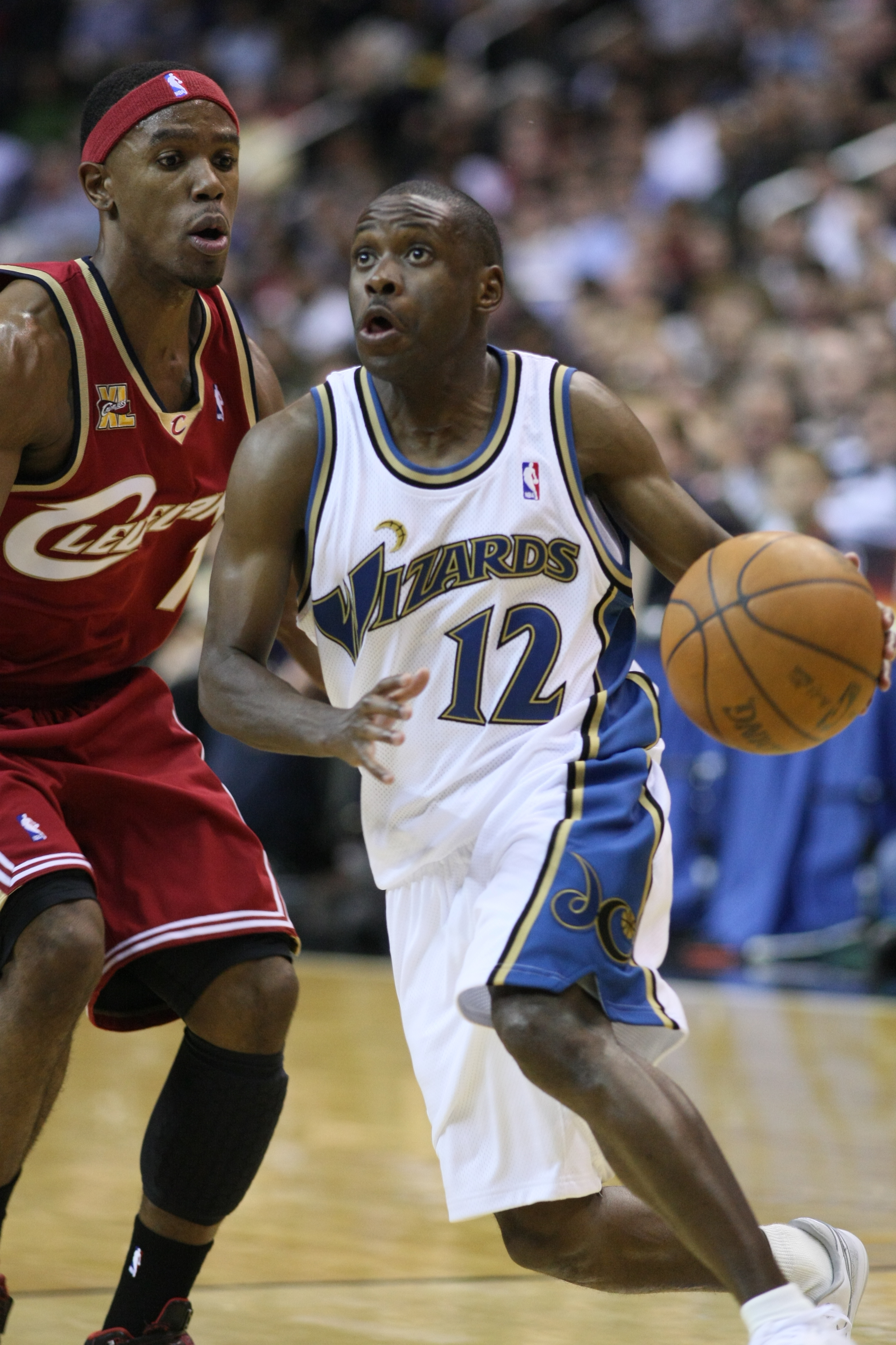 Earl Boykins of the Wizards defended by Daniel Gibson of the Cavs. Washington Wizards v/s Cleveland Cavaliers November 18, 2009 at Verizon Center in Washington, D.C.